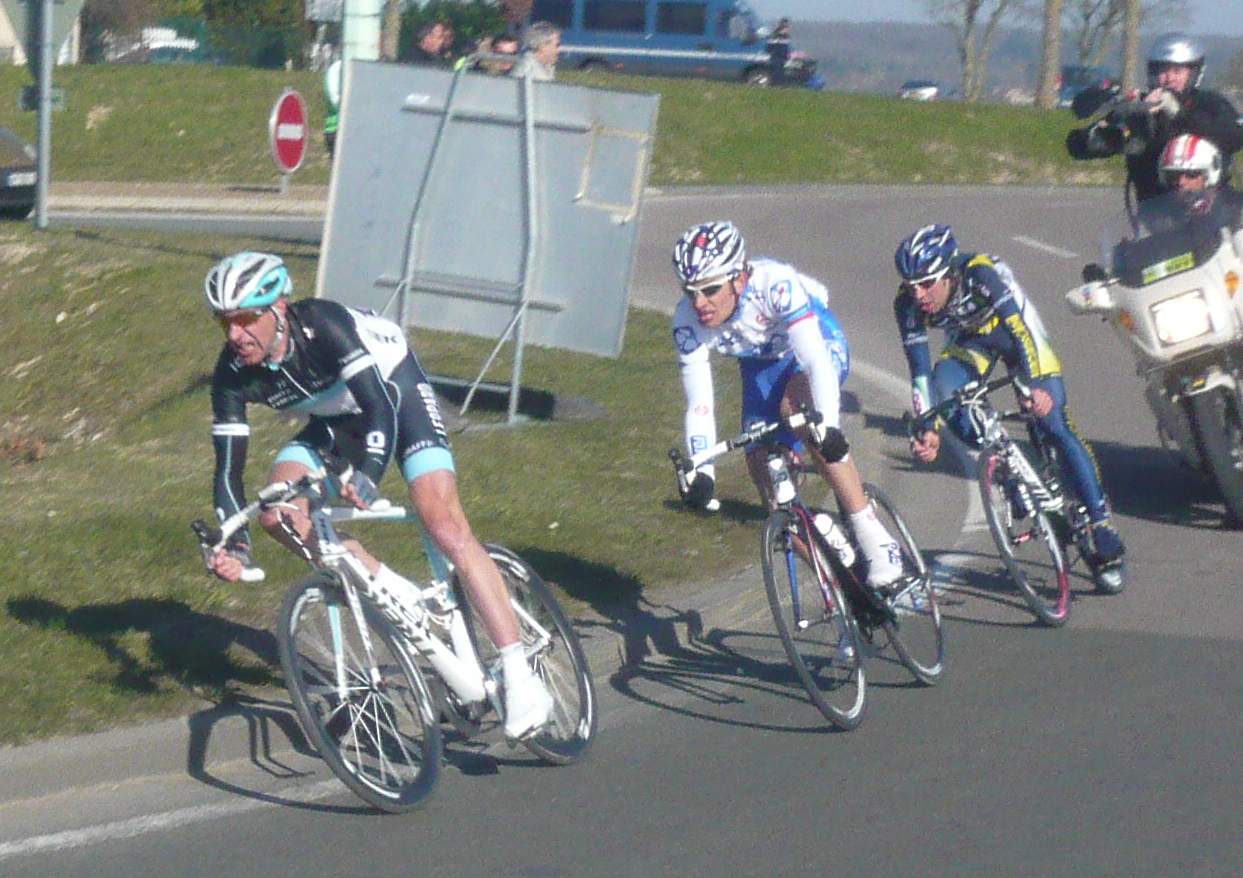 Voigt, Roy and De Gendt at 1st stage of 2010 Paris-Nice